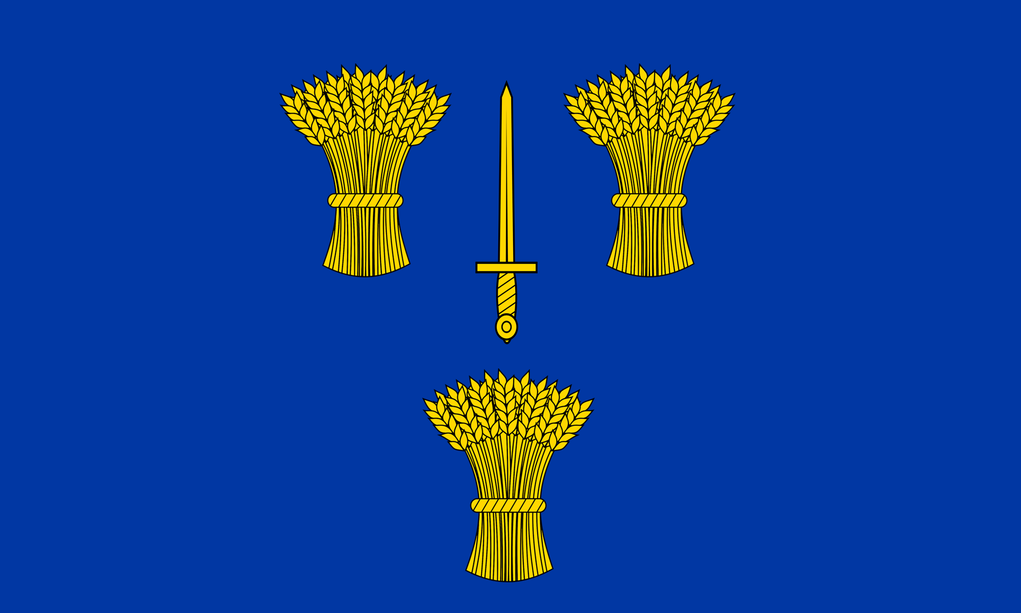 The County Flag of Cheshire, comprising a banner of arms of the former Cheshire County Council.